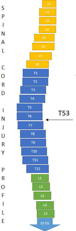 Wheelchair sports classification explanation image.T53. Derived from